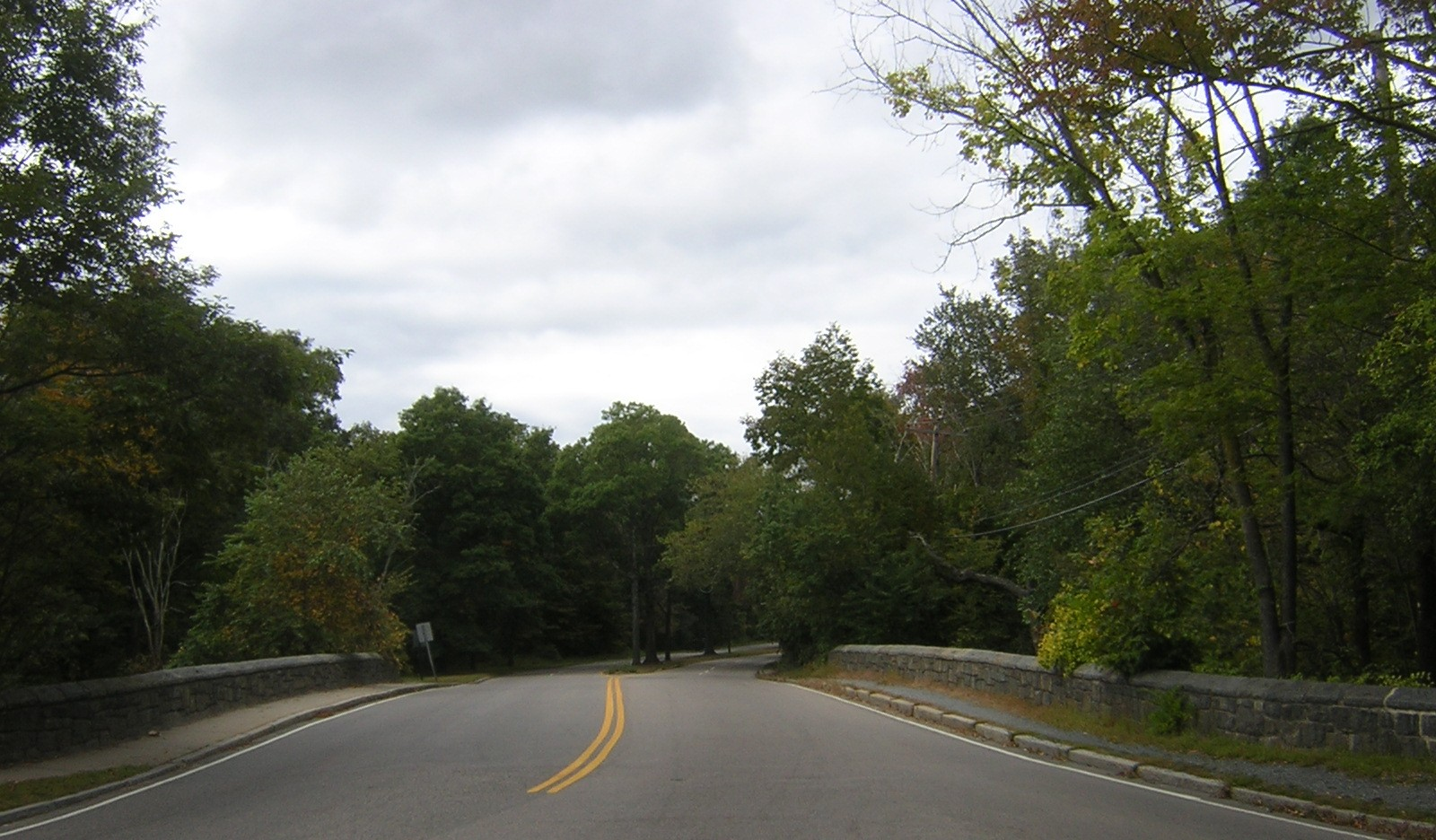 Neponset Valley Parkway, Massachusetts. Taken standing in Milton looking into Boston. The stone walls on either side are the railings of Paul's Bridge, which crosses the Neponset River, the border between the two.